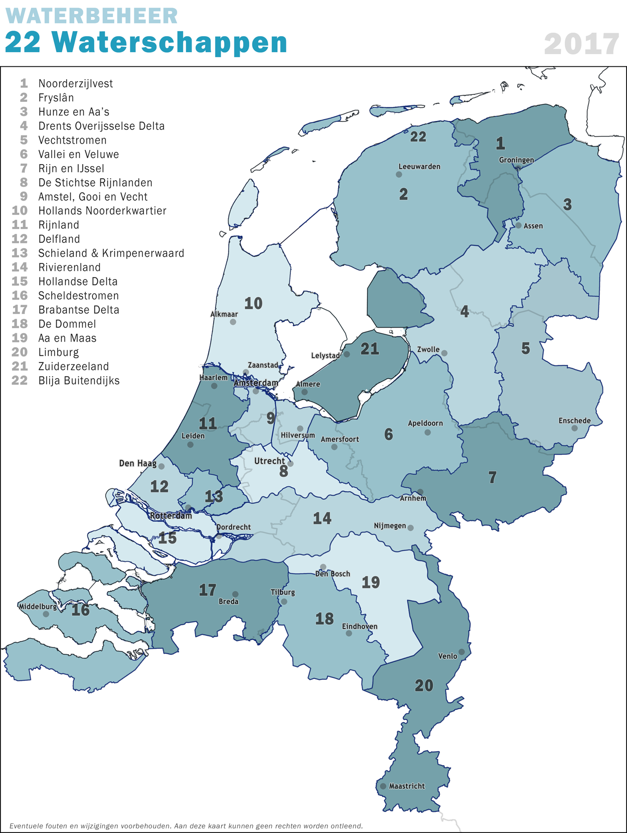 Overview map of the 22 Dutch Water Boards as of 1-1-2017, also including provincial borders